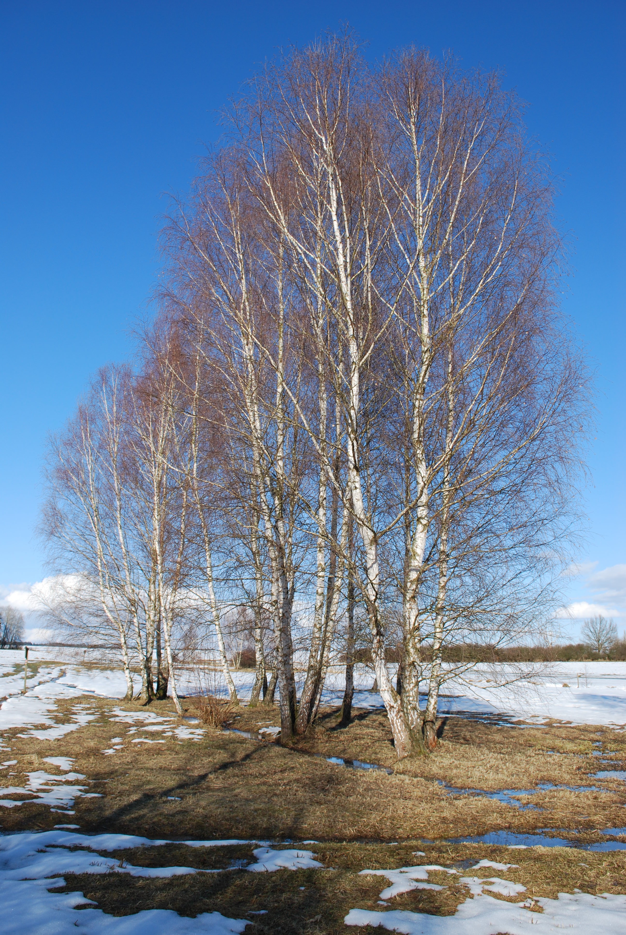 Natural monument Kutiny in Tábor District, Czech Republic This photograph was taken within the scope of the 'Czech Municipalities Photographs' grant. - Google Maps - Google Earth